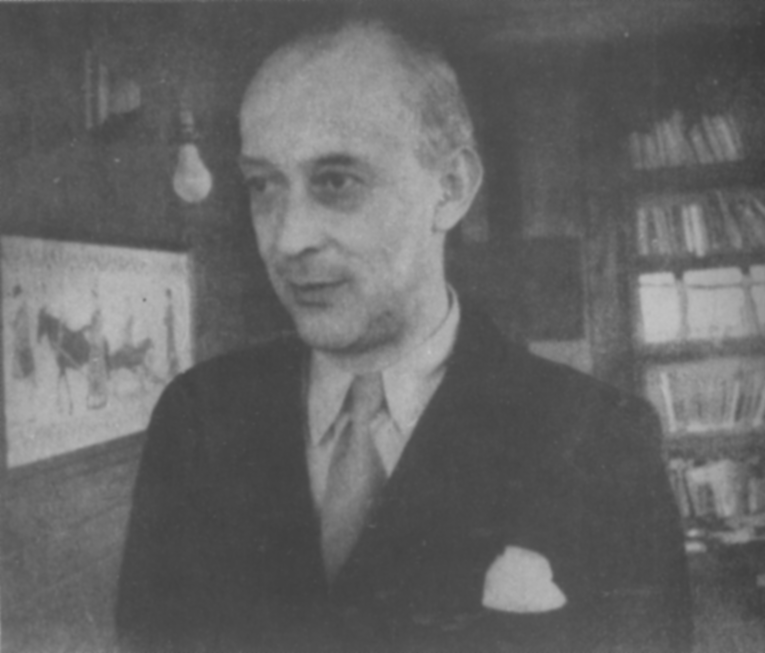 Photograph of Rafał Malczewski, taken in Ottawa.